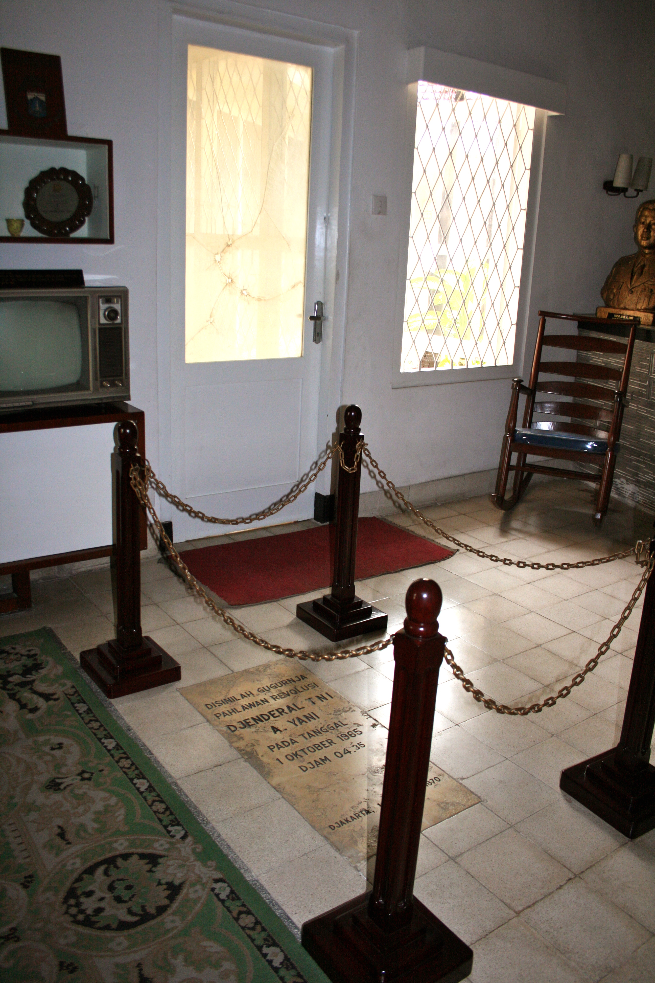 Plaque in the home of former Indonesian army commander Ahmad Yani marking the spot where he died after being shot by army rebels through the glass door (note the bullet holes) on 30 September 1965